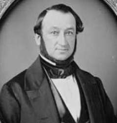 Alexander De Witt, US Representative from Massachusetts